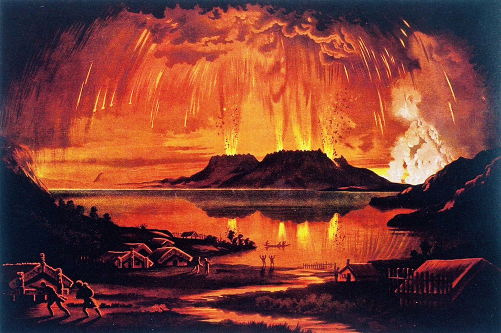 Charles Blomfield's painting of the 1886 eruption of Mount Tarawera based on eyewitness accounts